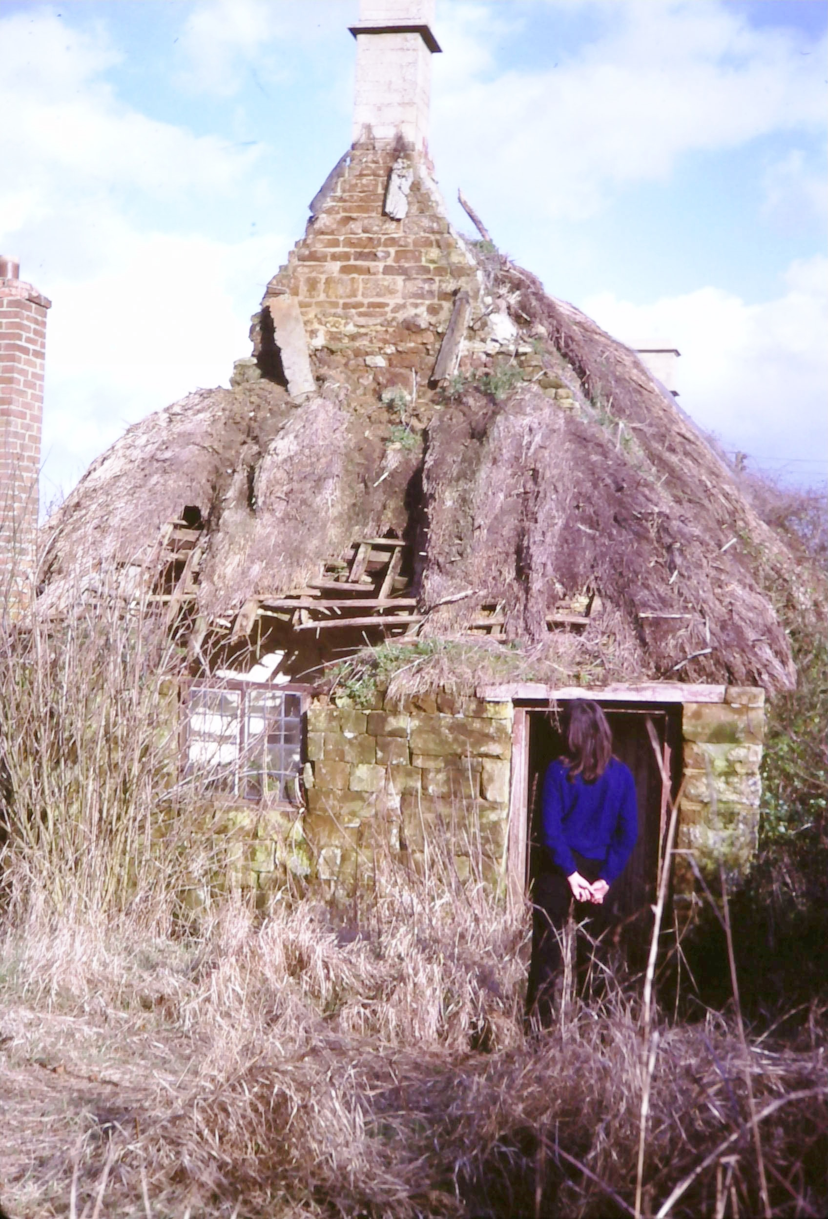 Abandoned cottage at Great Tew, Oxfordshire, in 1980